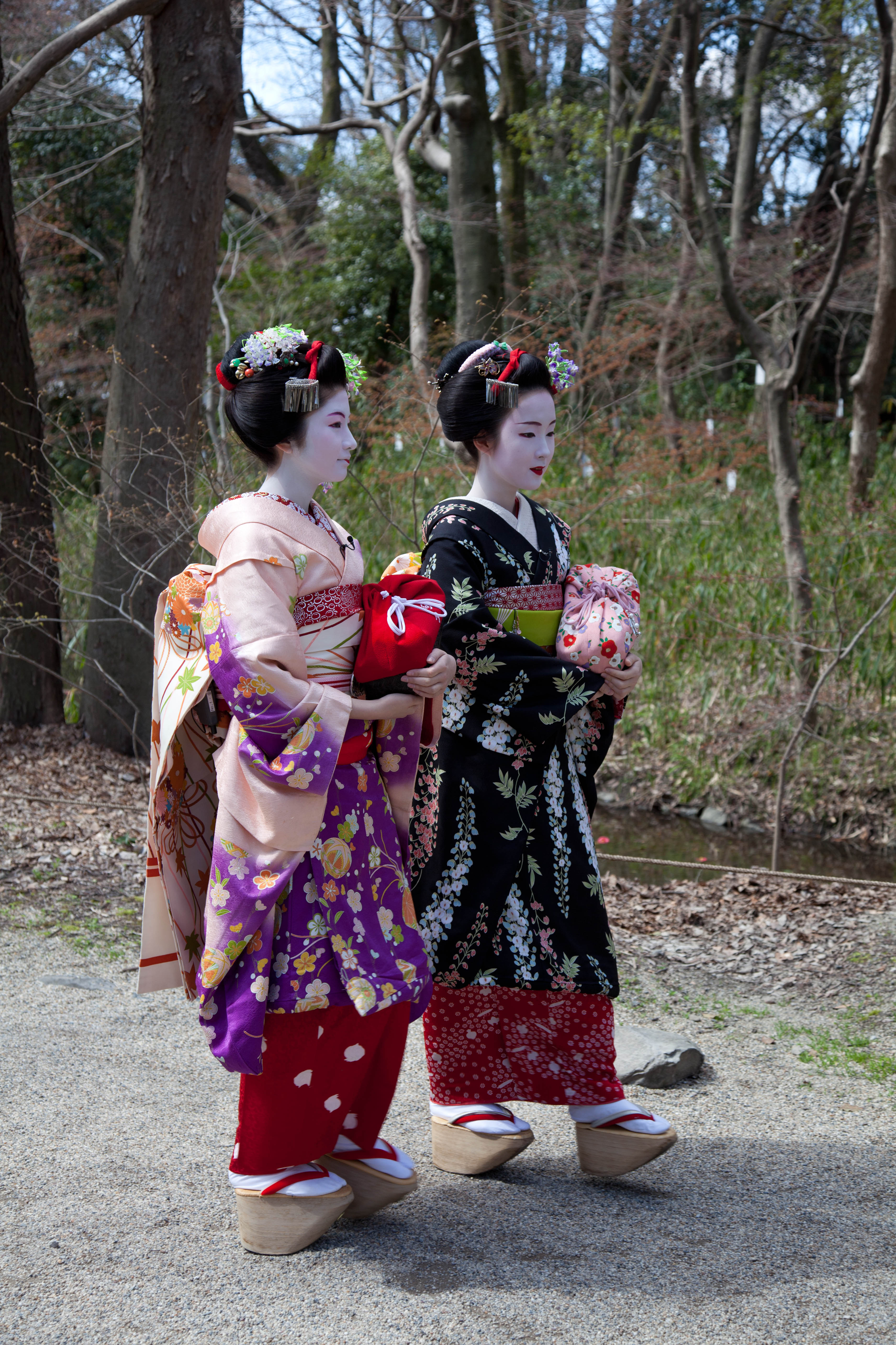 Two maiko, Satsuki (left) and Kyouka (right) walking